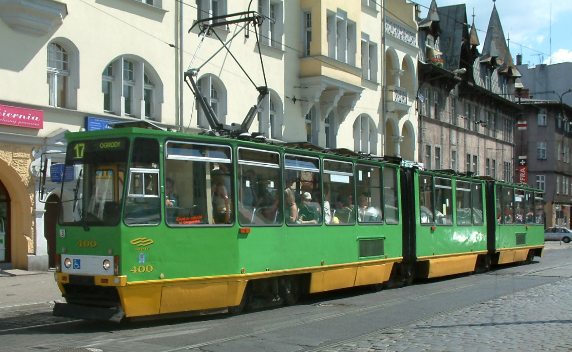 Tram type 105N2 (115N) in Poznań, Poland.